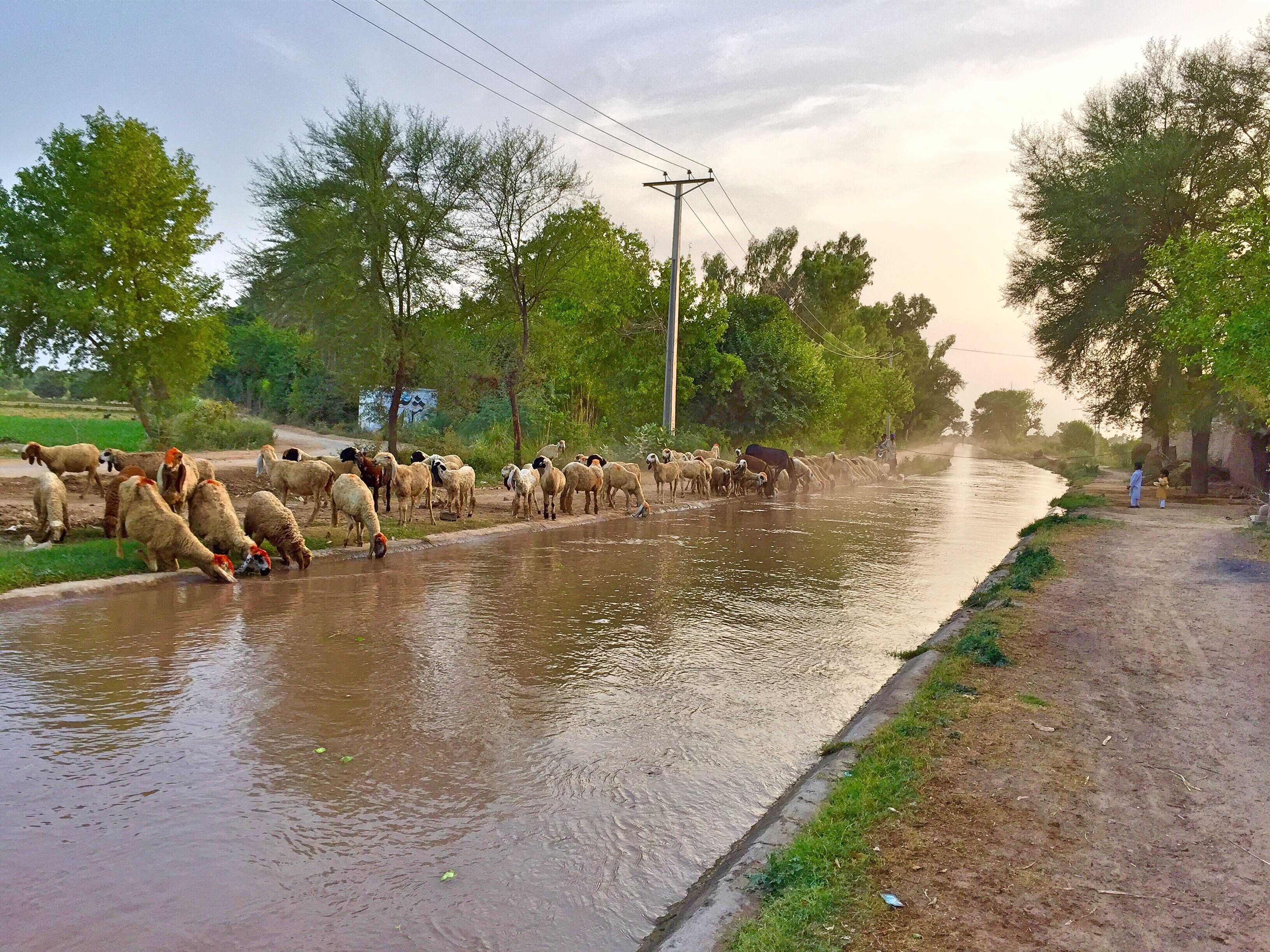 Beautiful canal of small town Shah kot District Nankana Sahib.